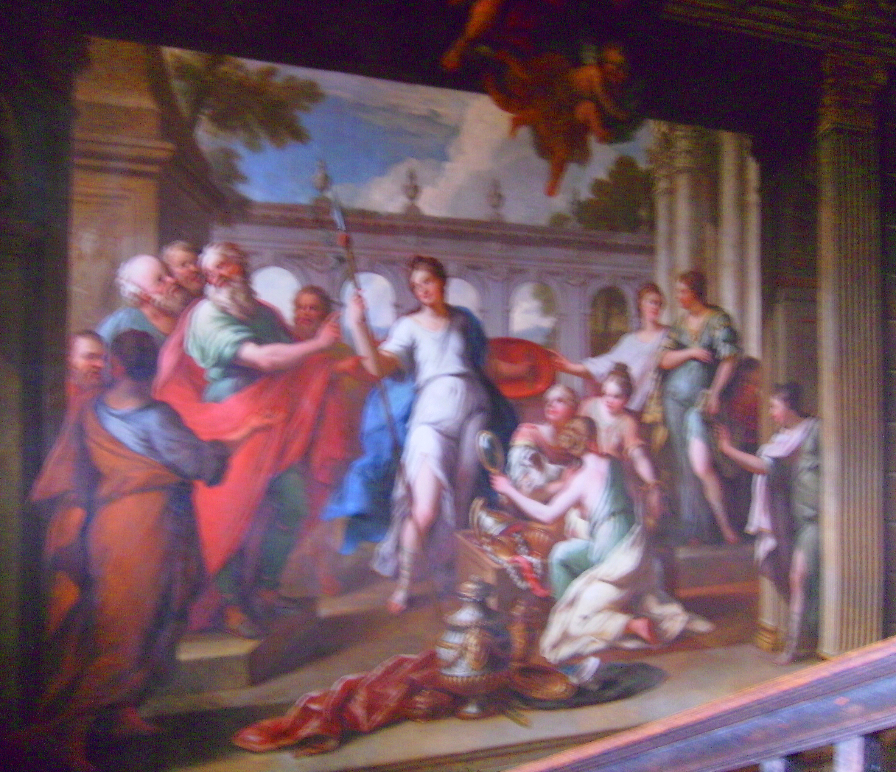 Hanbury Hall, Worcestershire, England. Mural of finding of Achilles by Odysseus. James Thornhill, c.1710.